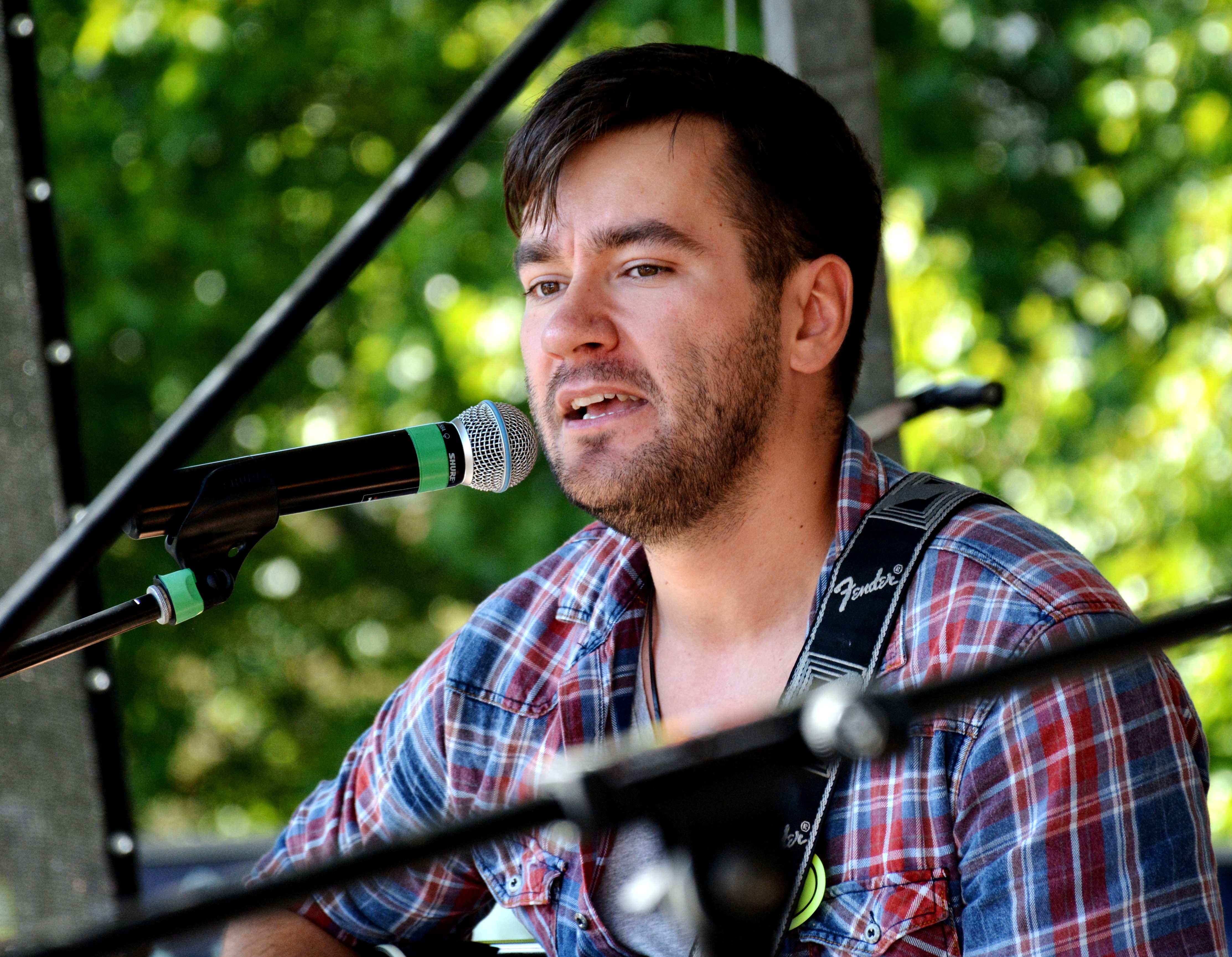 Marek Ztracený, Czech vocalist